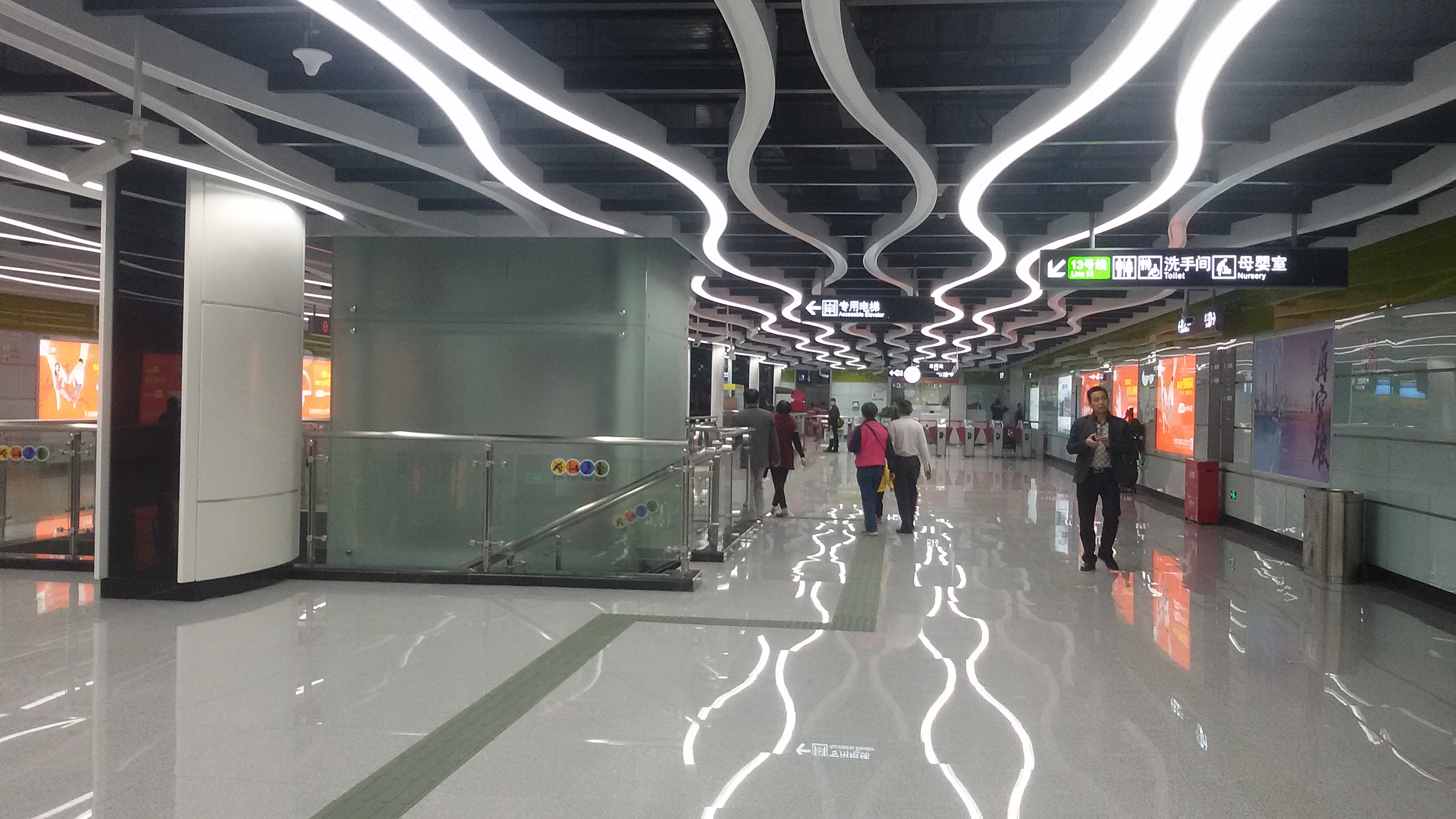 Station Concourse for Baijiang Station in Guangzhou Metro.